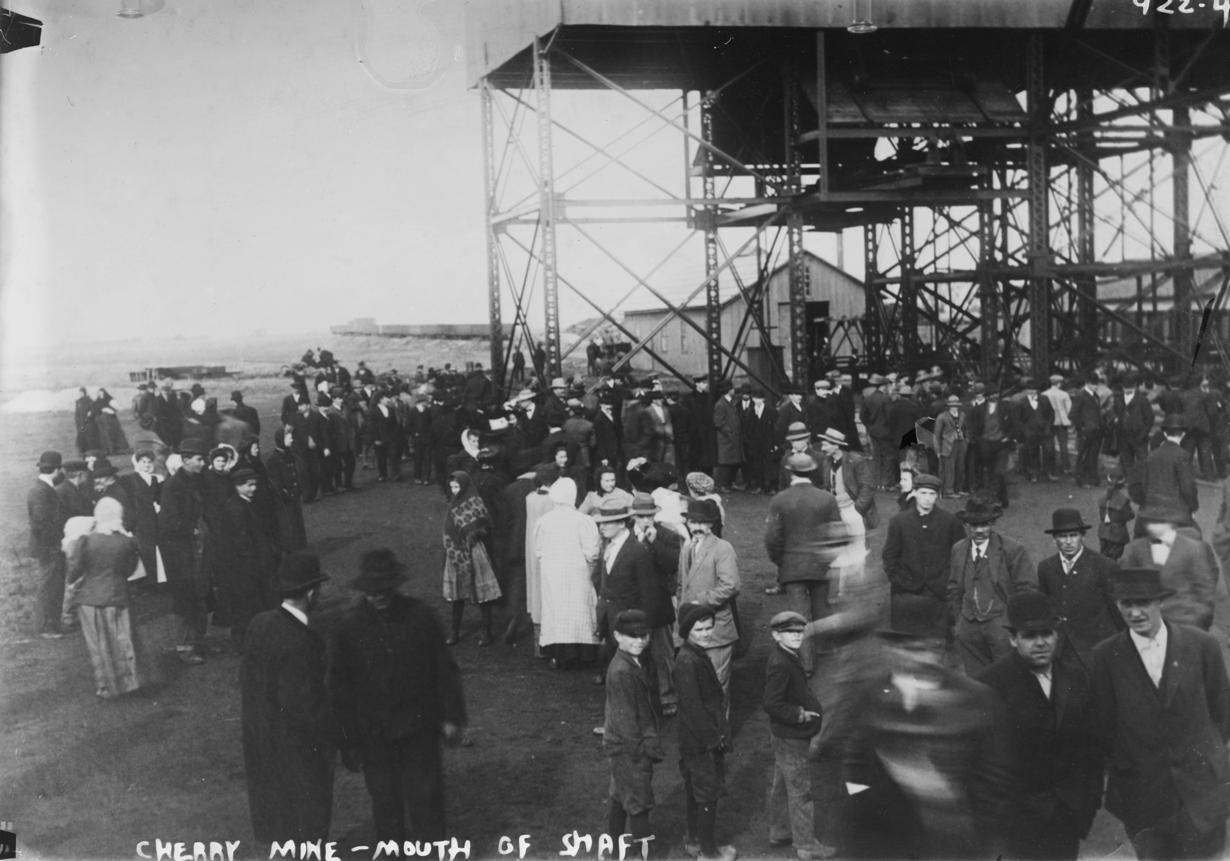 Cherry Mine disaster, crowd at mouth of shaft in November 1909. Coal mining in Illinois.